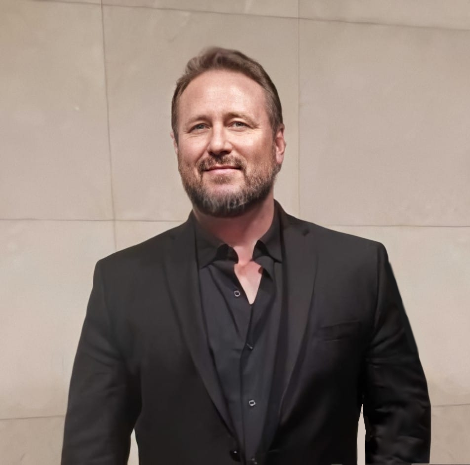 Sean Bradley -- Conductor, Composer, Violinist, Entrepreneur (circa 2019) in Los Angeles, CA.